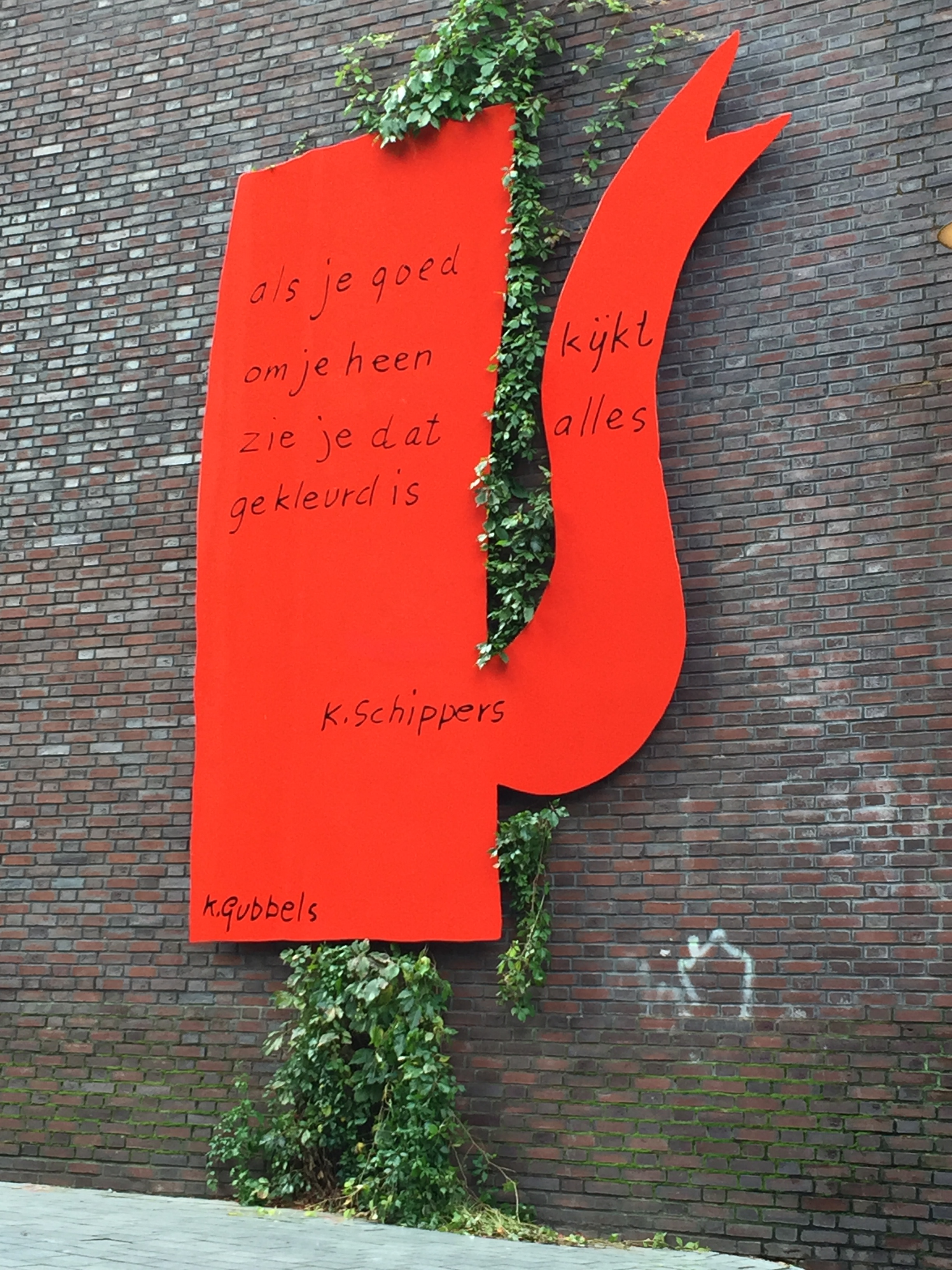 Poem by K. Schippers, coffee pot by Klaas Gubbels, Arsenaalplaats, Nijmegen